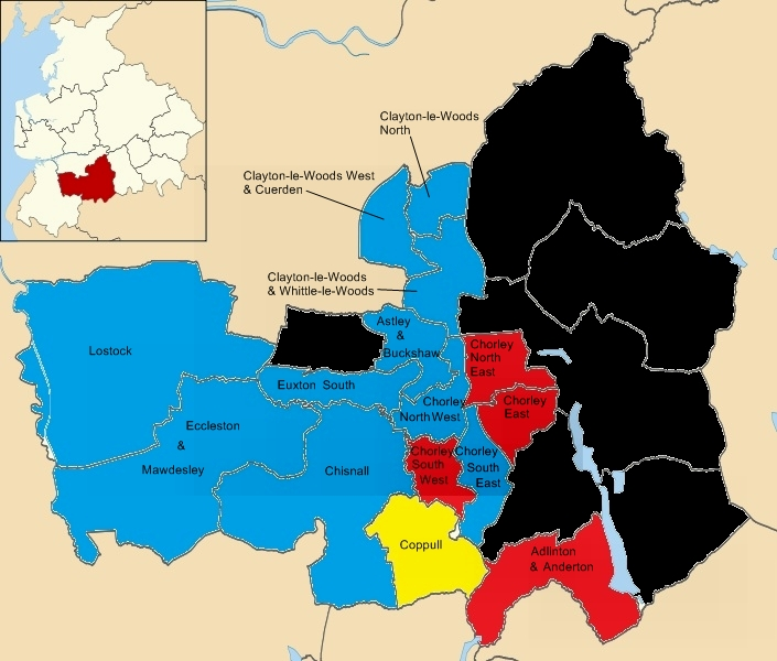 Chorley 2007